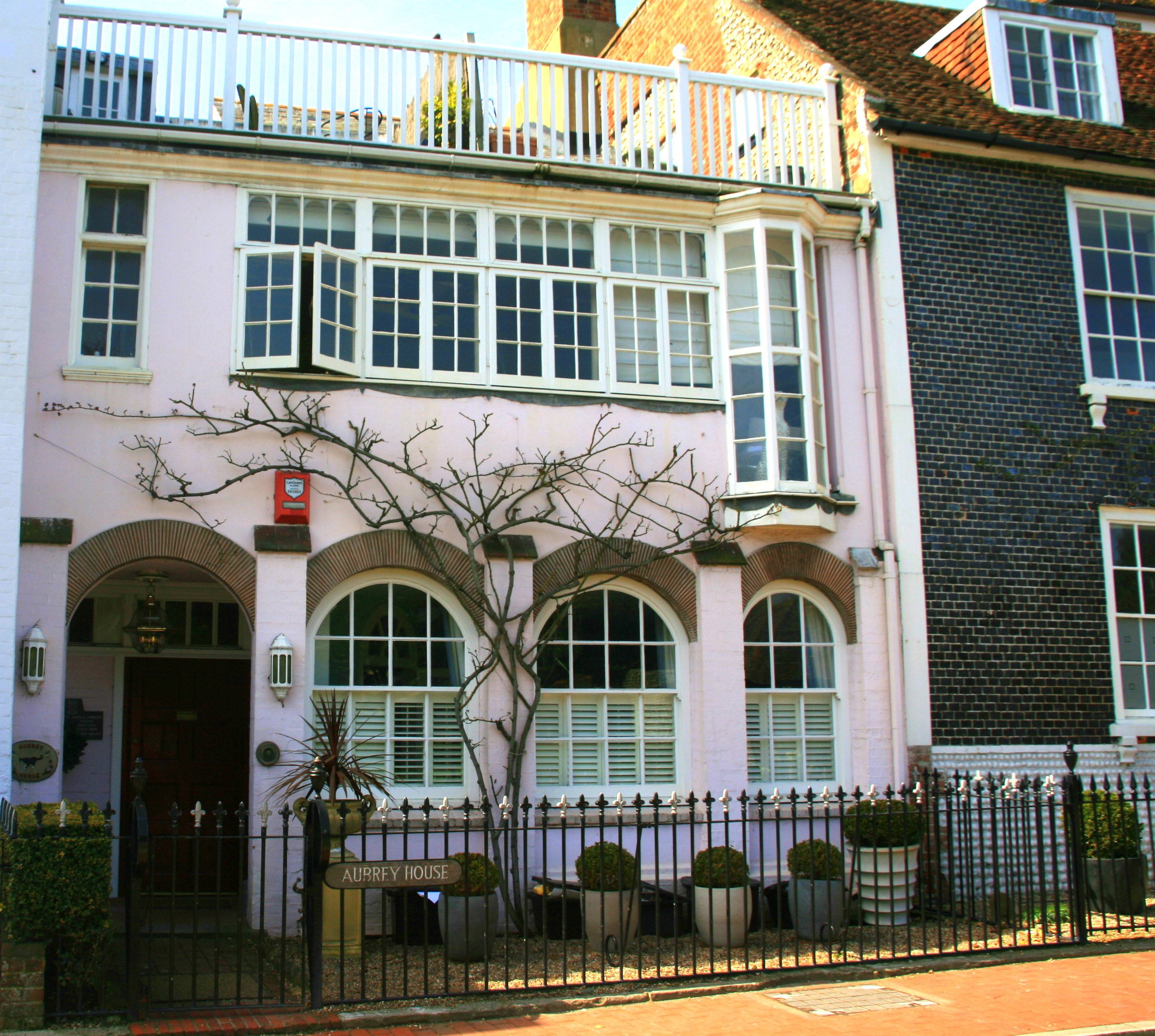 Home of Enid Bagnold in Rottingdean, Sussex, UK